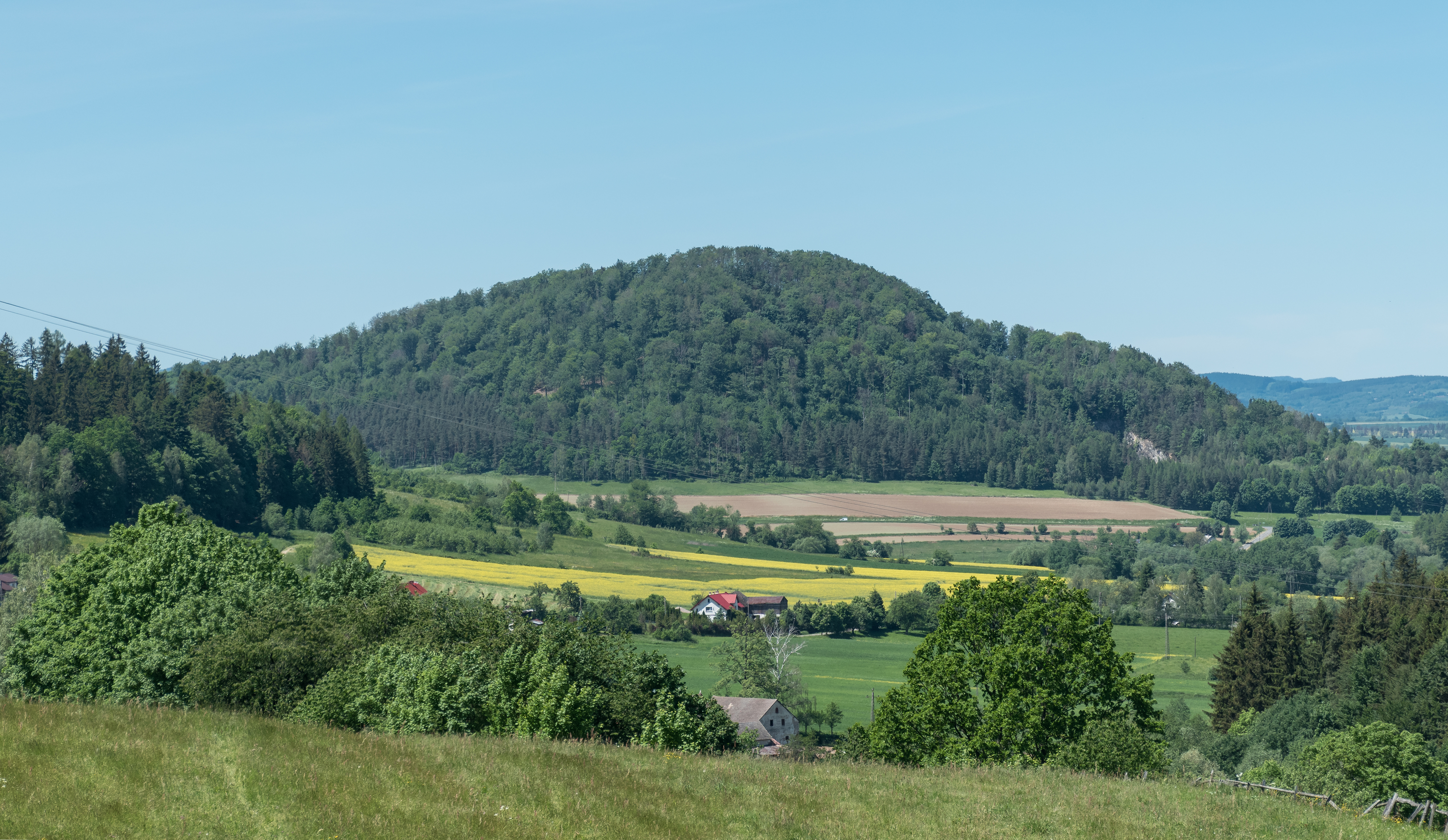 Grodowa, Krowiarki, Sudetes